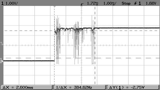 The "bouncy" voltage of a switch turning on. This is a crop from a screenshot of an Agilent Technologies oscilloscope.